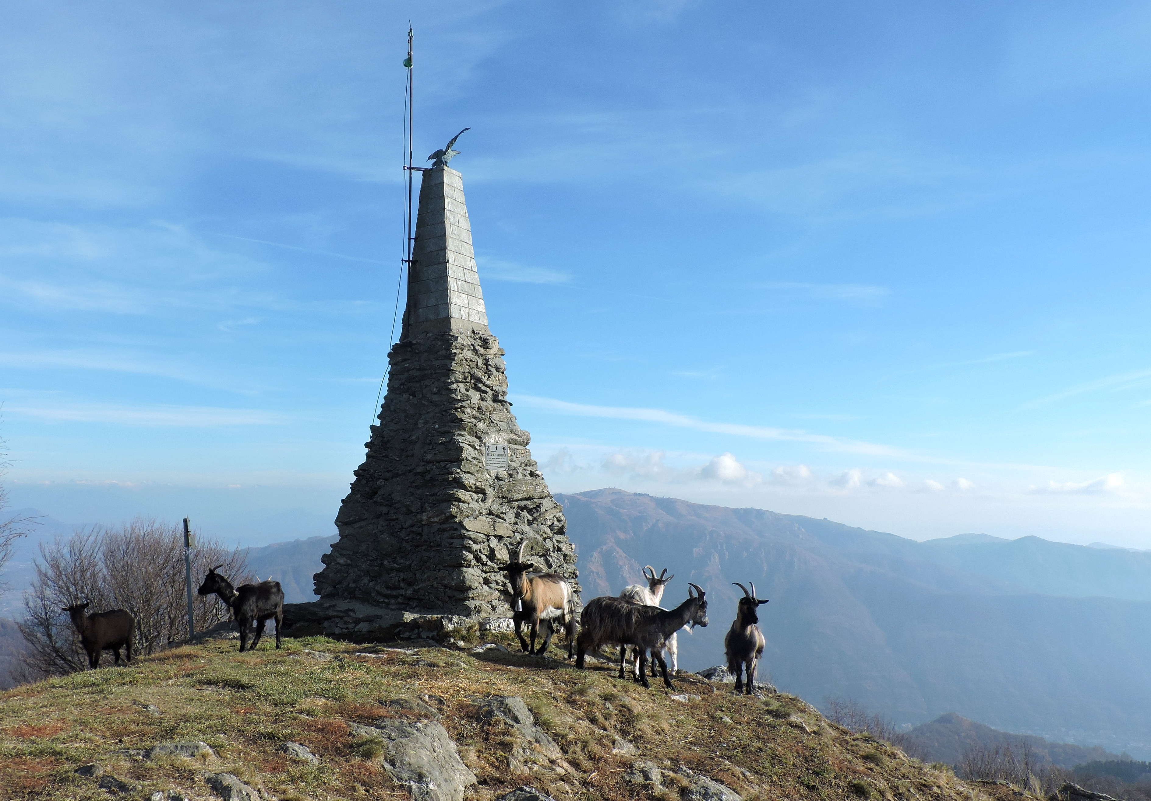 The summot of mount Mazzocone, in the background the Mottarone (Cusian Alps, Italy)